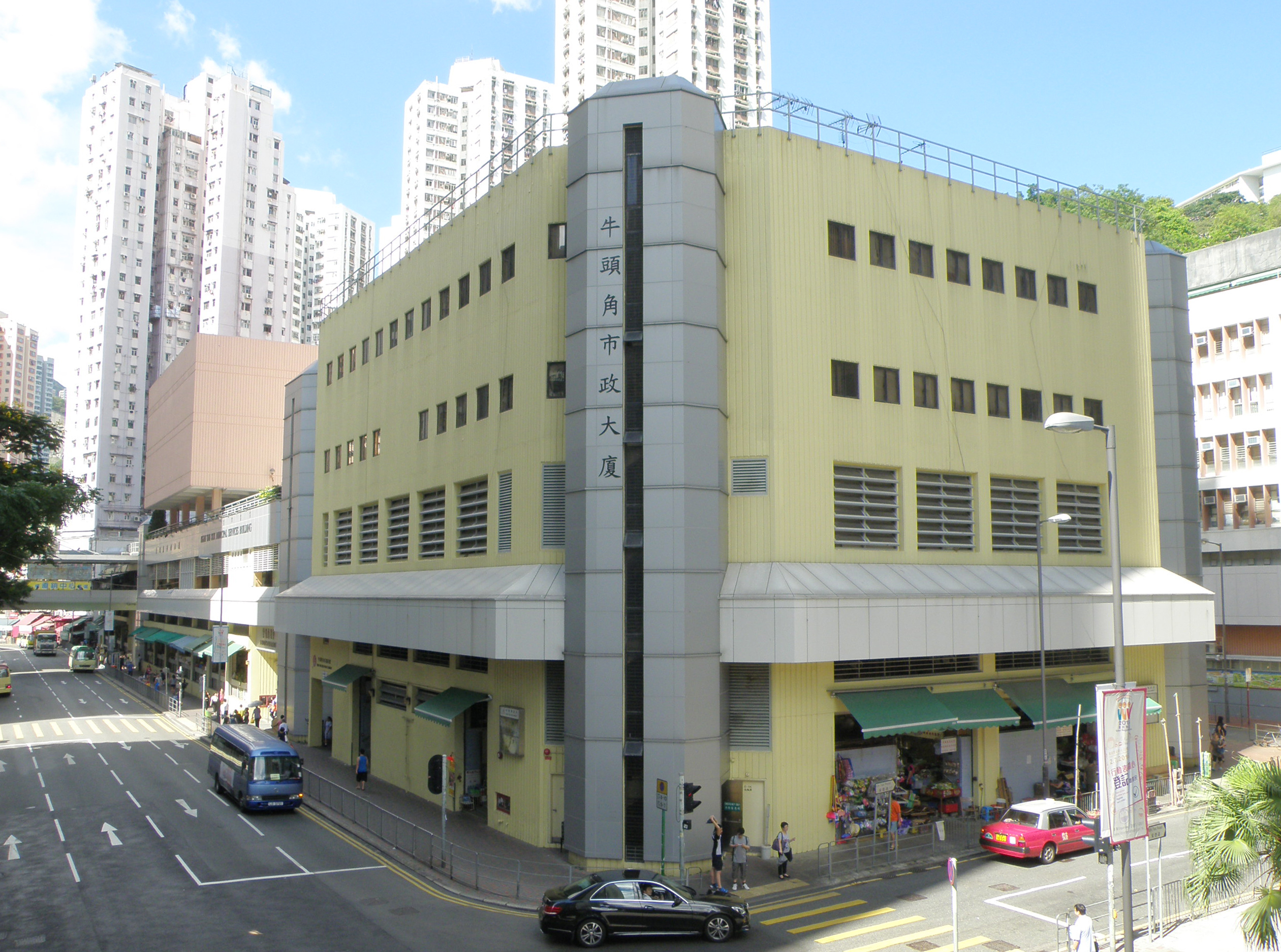 Ngau Tau Kok Municipal Services Building in Kowloon Bay, Hong Kong.